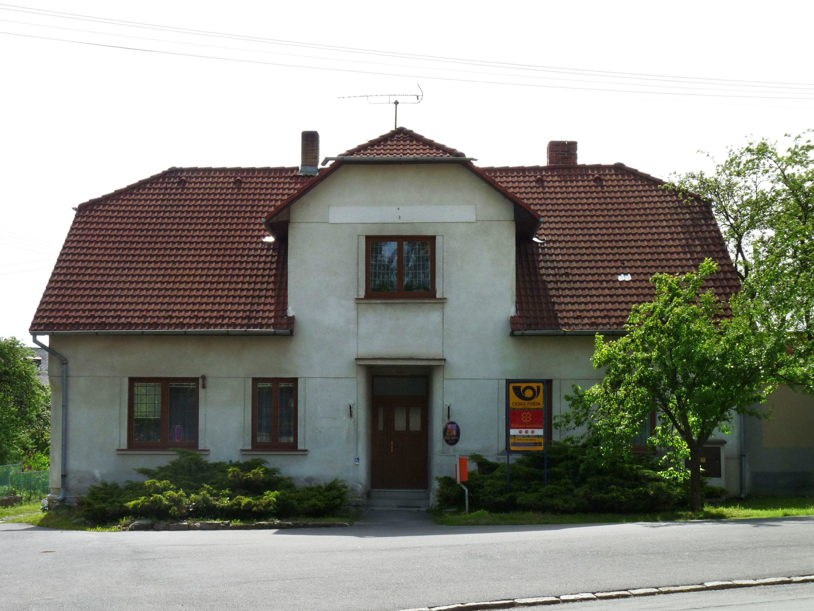 Municipal office building in the village of Mnich, Pelhřimov District, Vysočina Region, Czech Republic.